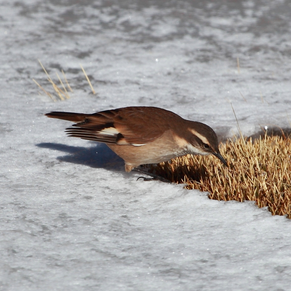 White-winged Cinclodes at Rio Putana, San Pedro de Atacama, Chile